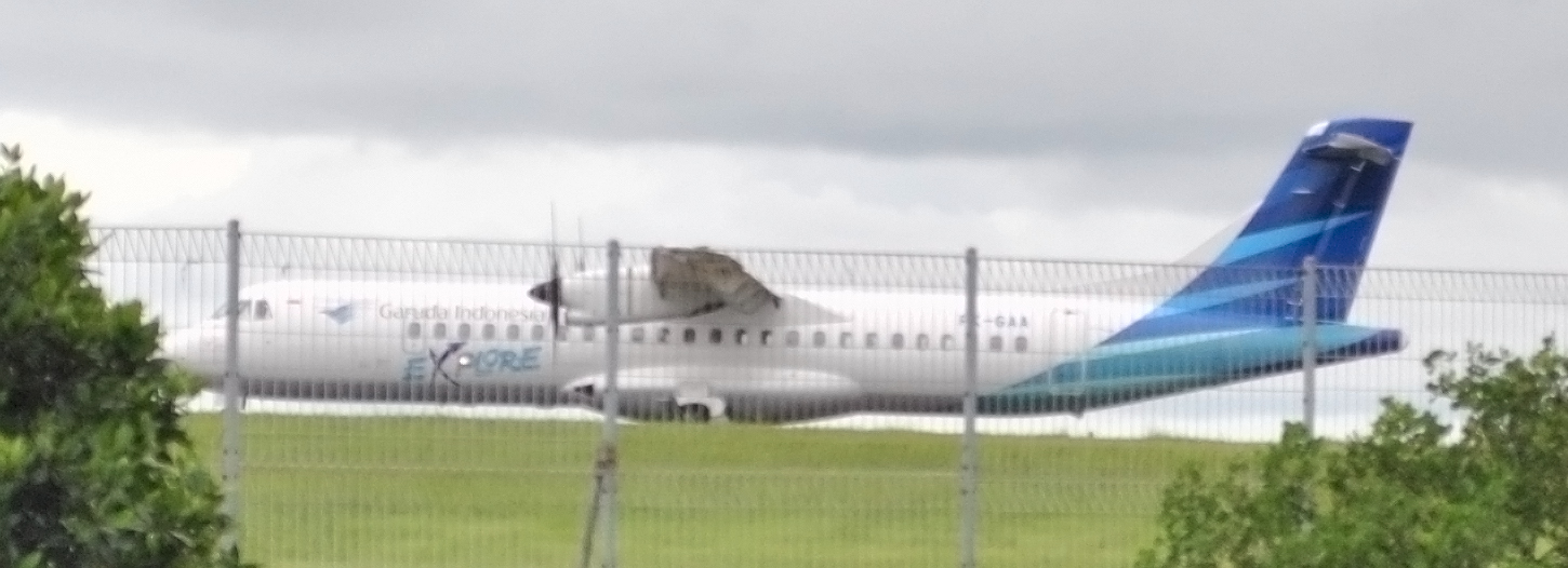 Garuda Indonesia ATR72-600 (reg. code PK-GAA) taxiing at I Gusti Ngurah Rai International Airport, Tuban, Badung, Bali. Low quality image, but worth to provide here. One of another Garuda plane with reused registration code, previously, PK-GAA was an Airbus A300.